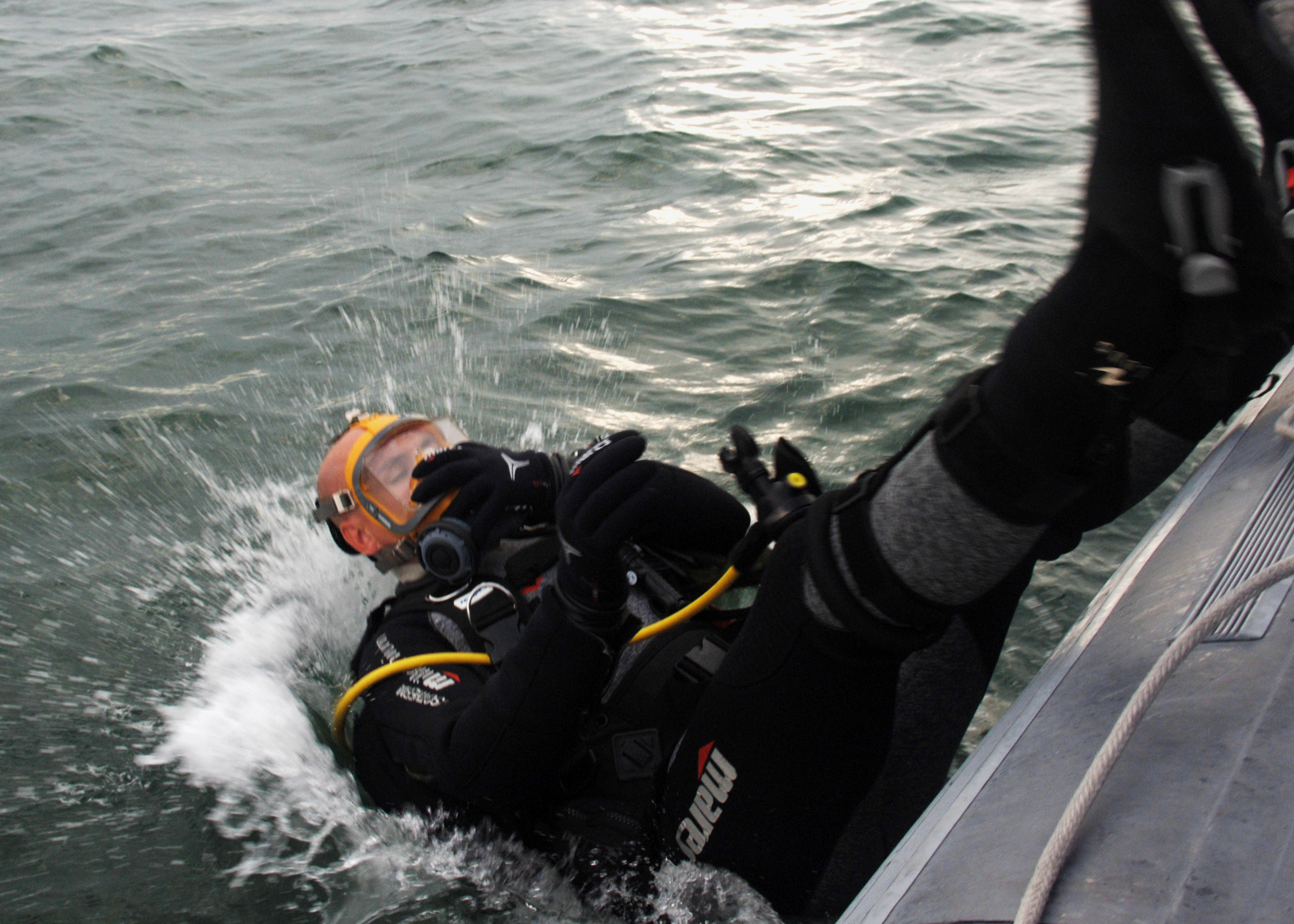 FORT STORY, Va. (Oct. 24, 2007) - Navy Diver 1st Class Troy Jones makes a splash as he enters the water to oversee MK-16 MOD 1 dive training being held at Explosive Ordnance Disposal Training and Evaluation Unit (EODTEU) 2. The dive training is being held to bring Navy divers in the fleet the appropriate qualifications for the MK16 MOD 1 apparatus. U.S. Navy photo by Mass Communication Specialist 2nd Class Christopher Stephens (RELEASED)